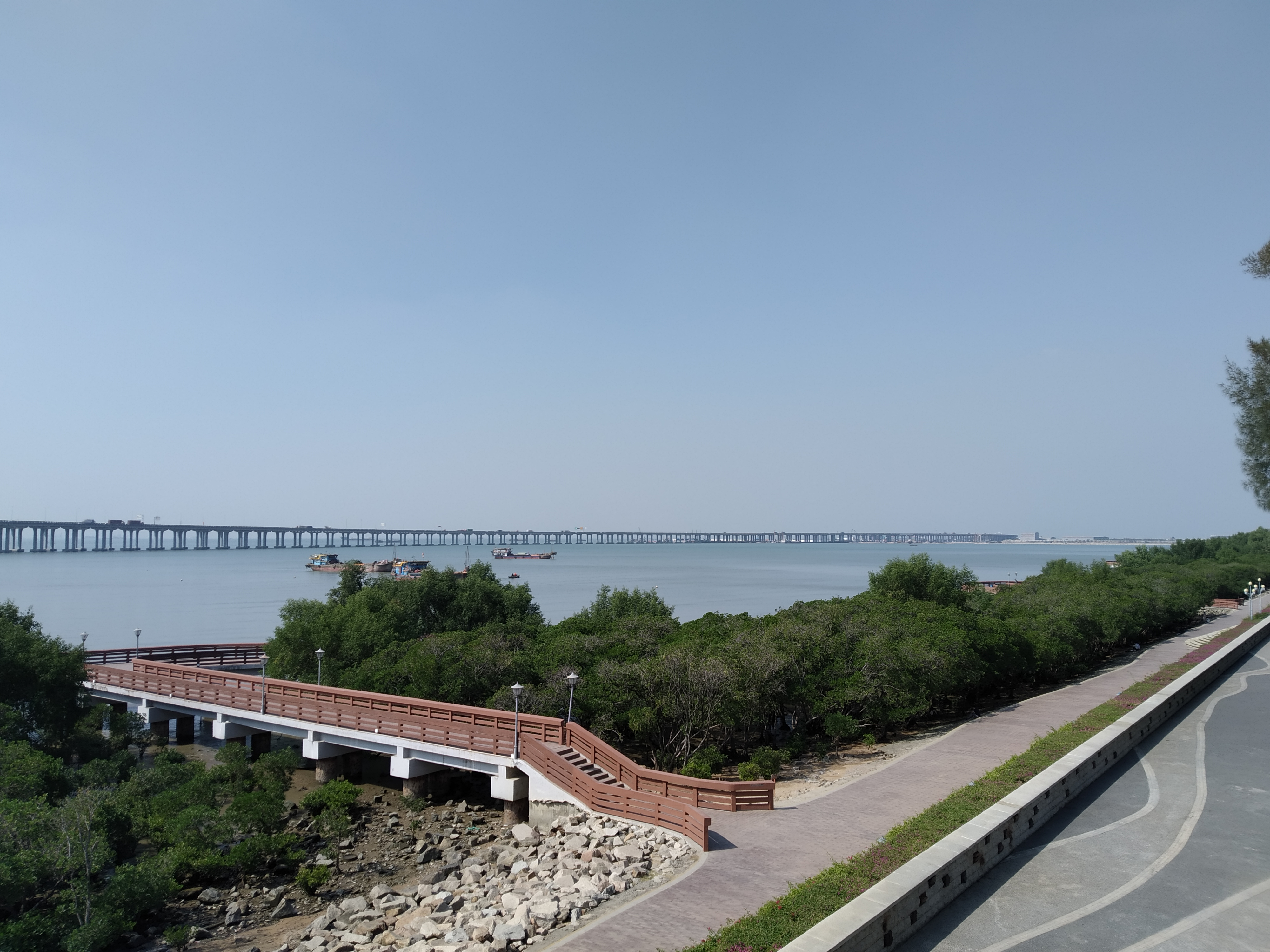 Bao'an Xiwan Mangrove Forest Park (宝安西湾红树林公园), a park in Bao'an District, Shenzhen, China.